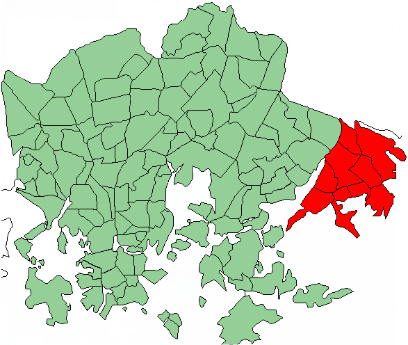 Districts of Helsinki, Vuosaari area highlighted